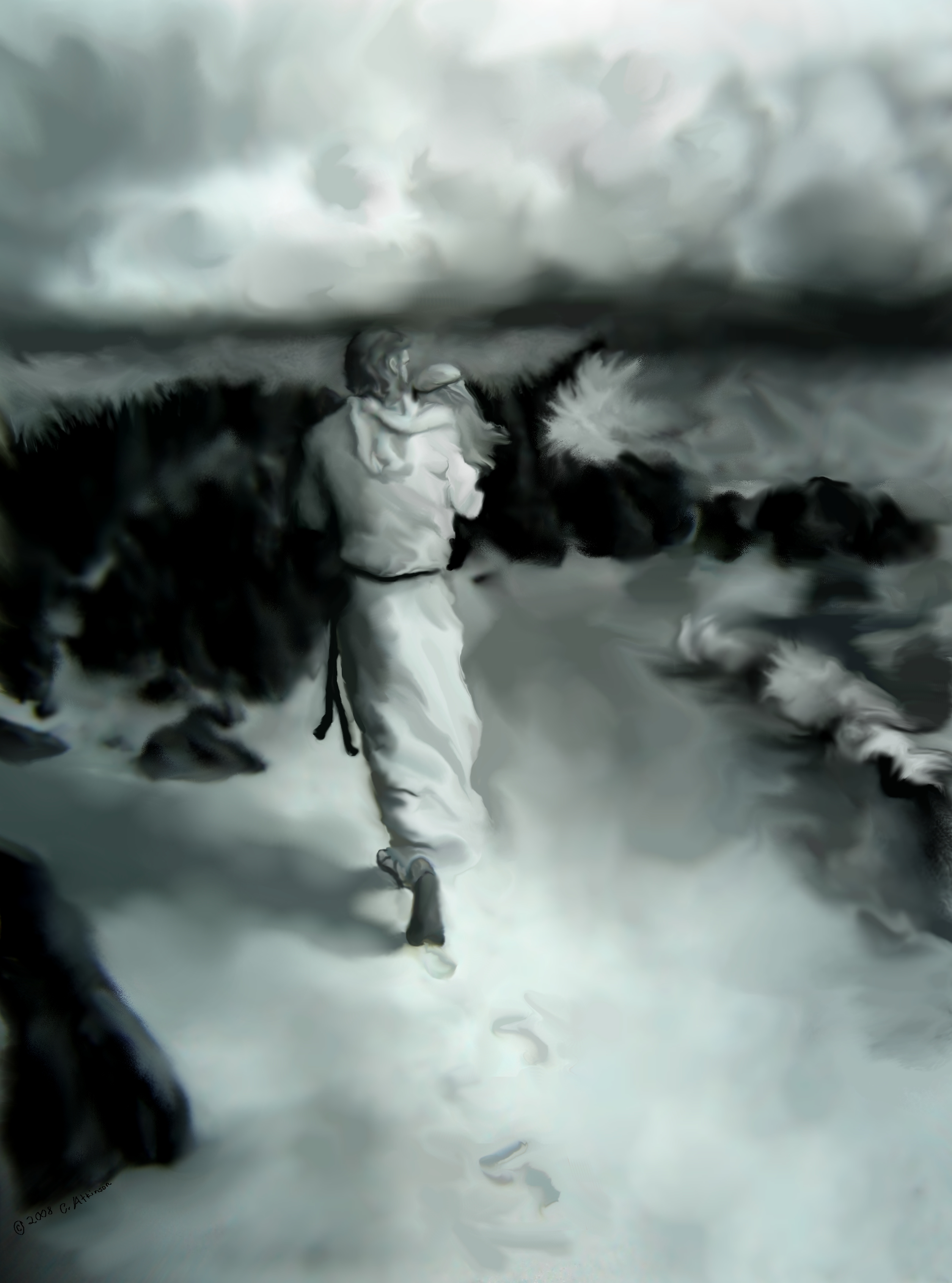 The original work that inspired this version came to me when I was about to embark on a mission for my church. I wished to comfort my mother. Little did I know that I would be struck by illness on that mission and would need the comfort my own artwork could provide.